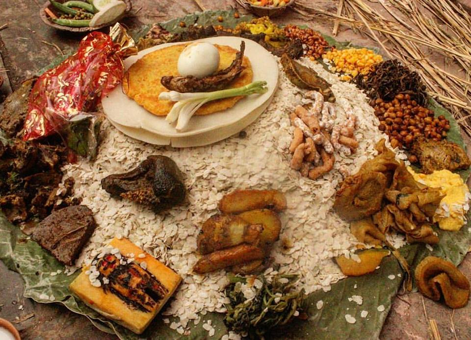 Lapte Bhowe serve in tantric and ritual way in Newa People of Nepal.